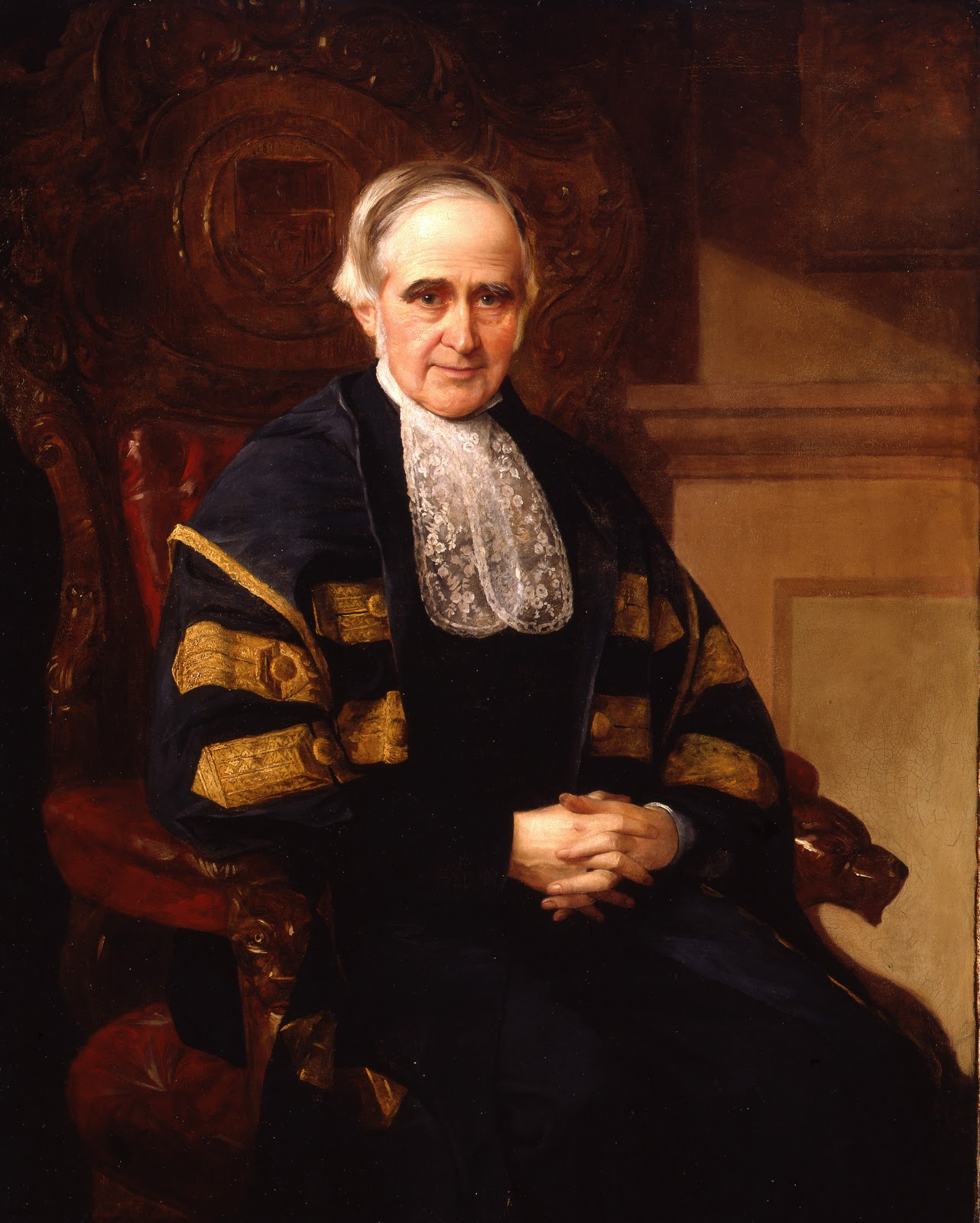 Portrait of Fleetwood Churchill (1808-1878), English physician.